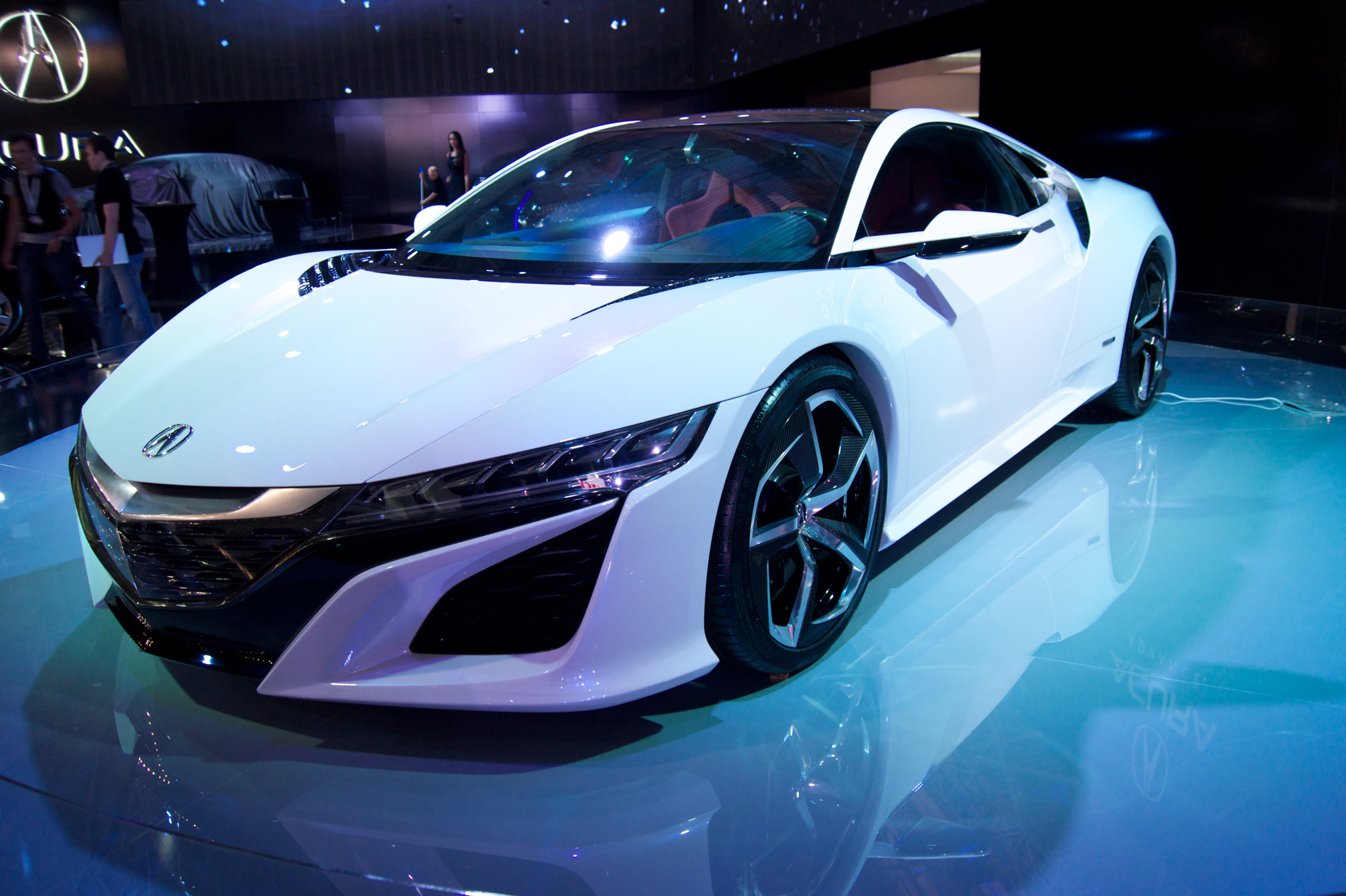 Russian presentation of Acura NSX Concept at MIAS 2014